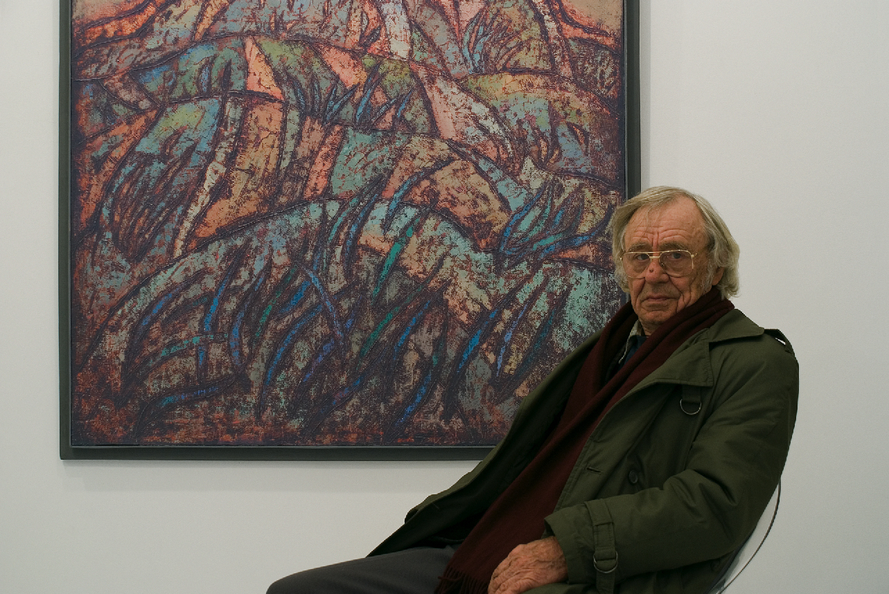 Painter Leon Vreme in Calina Art Gallery, one man show 2008